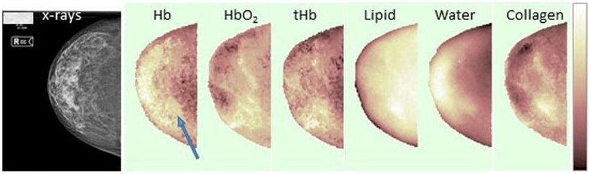 Example of tissue composition maps. Right cranio-caudal view with a fibroadenoma (10 mm size) in the lower-outer quadrant. From left to right, x-ray image and constituents' concentrations variations' maps of the main breast constituents (Hb, HbO2 , tHb, lipid, water and collagen). Hb stands for deoxy-hemoglobin, HbO2 for oxy-hemoglobin, tHb for total hemoglobin. A blue arrow points to the lesion location.